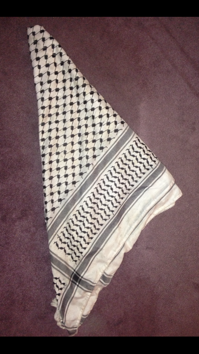 Keffiyeh